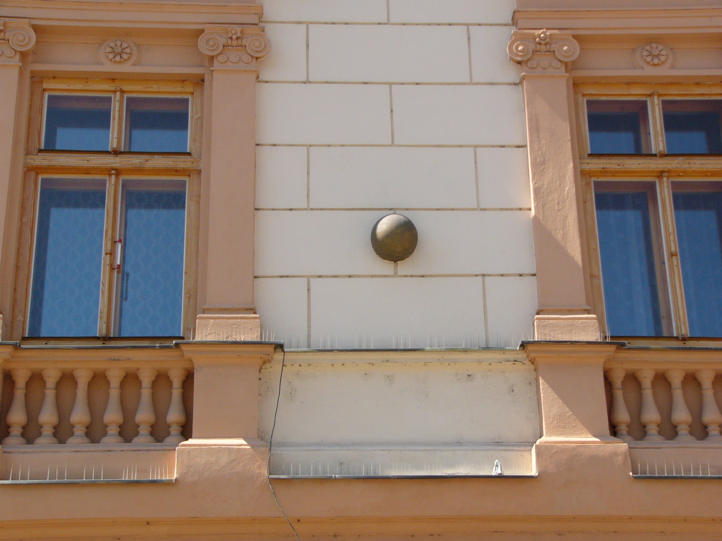 Cannon ball on the wall of house at Lower square in Olomouc (Czech Republic). In memorial of Prussian siege in 1758.